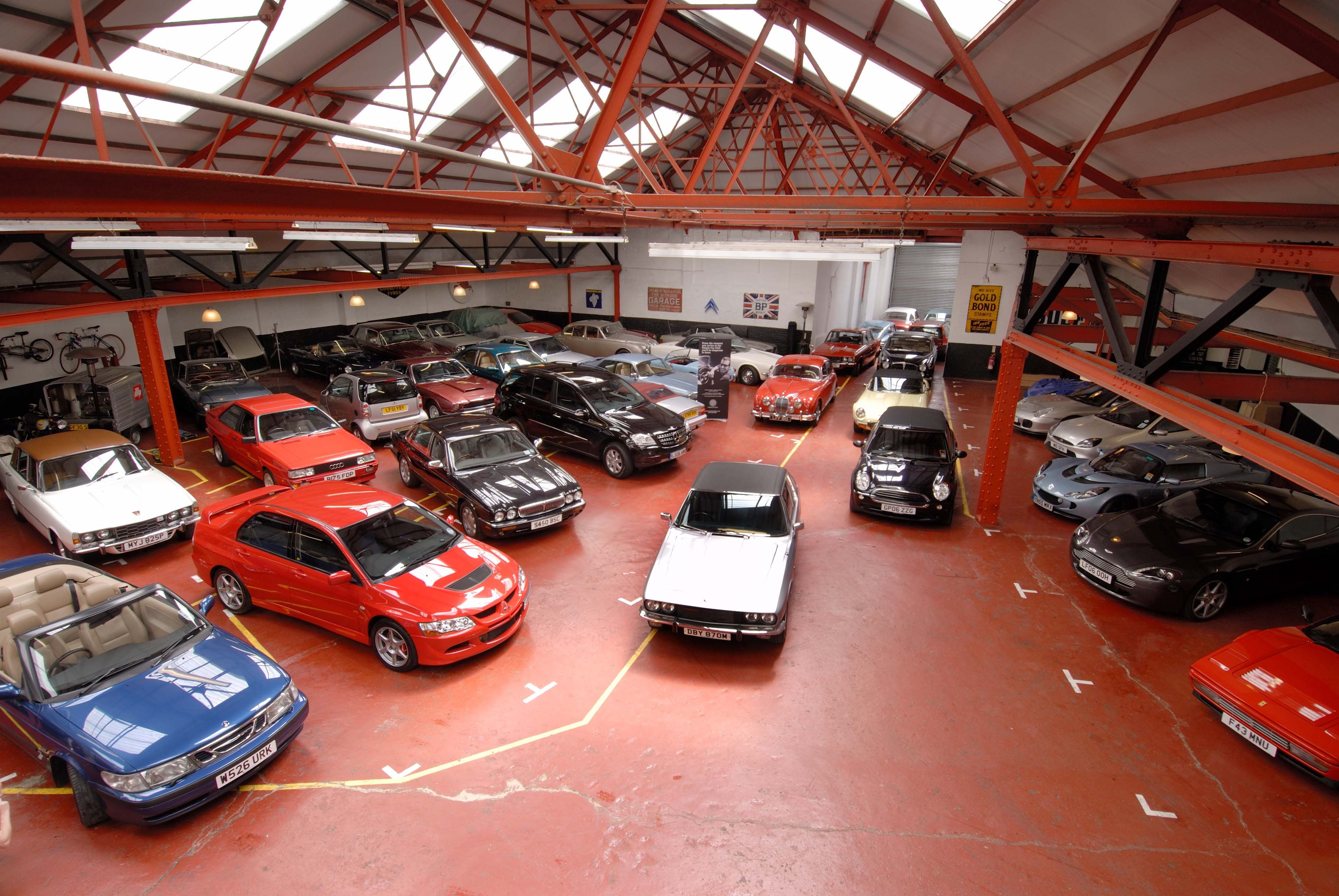 Interior of Classic Car Club. 250 Old Street, London, EC1V 9DD